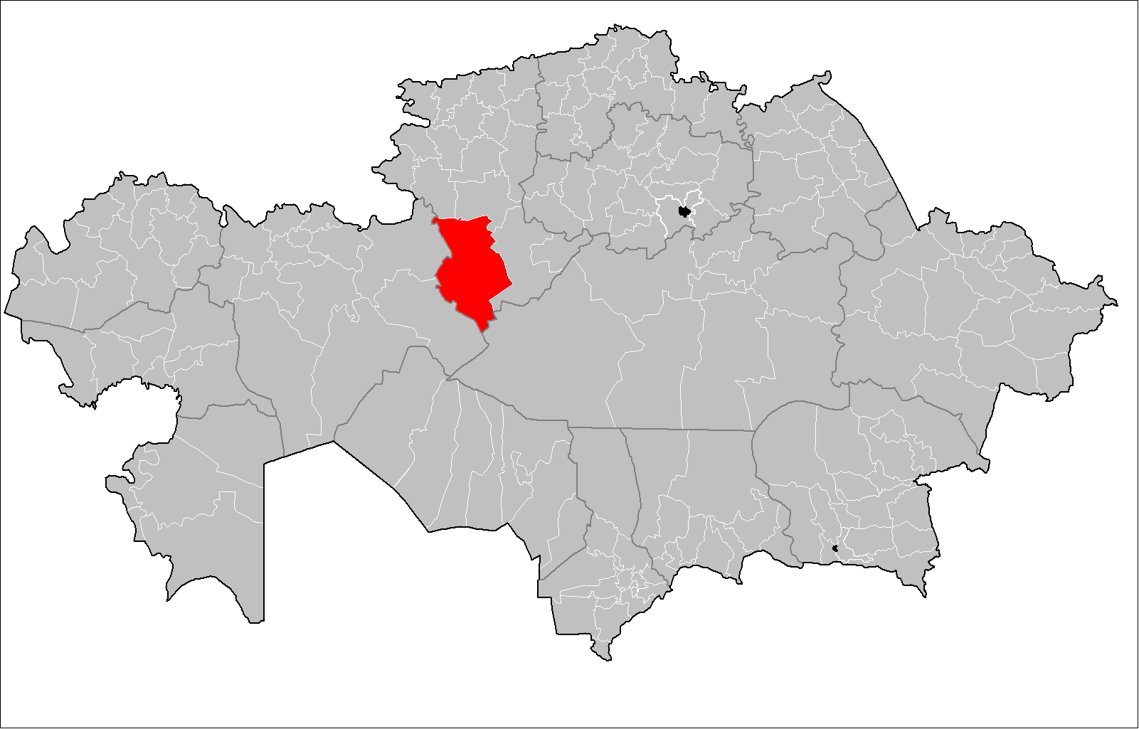 Map of the rayons of Kazakhstan. Created by Rarelibra 16:49, 3 August 2007 (UTC) for public domain use, using MapInfo Professional v8.5 and various mapping resources.